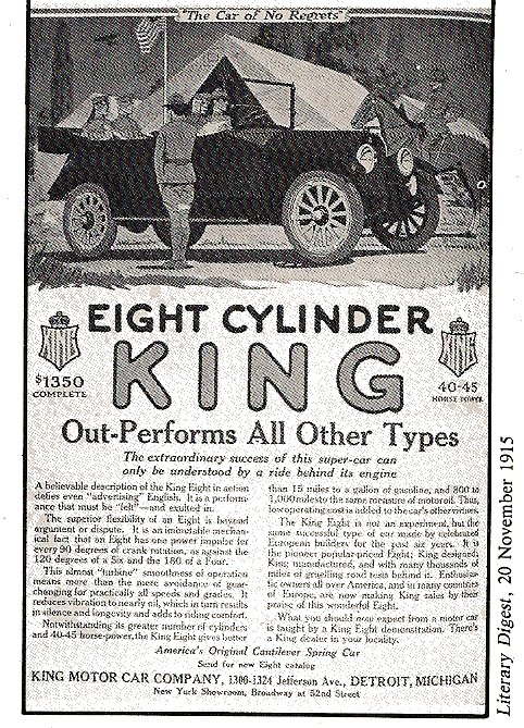 1915 advertisement for King cars